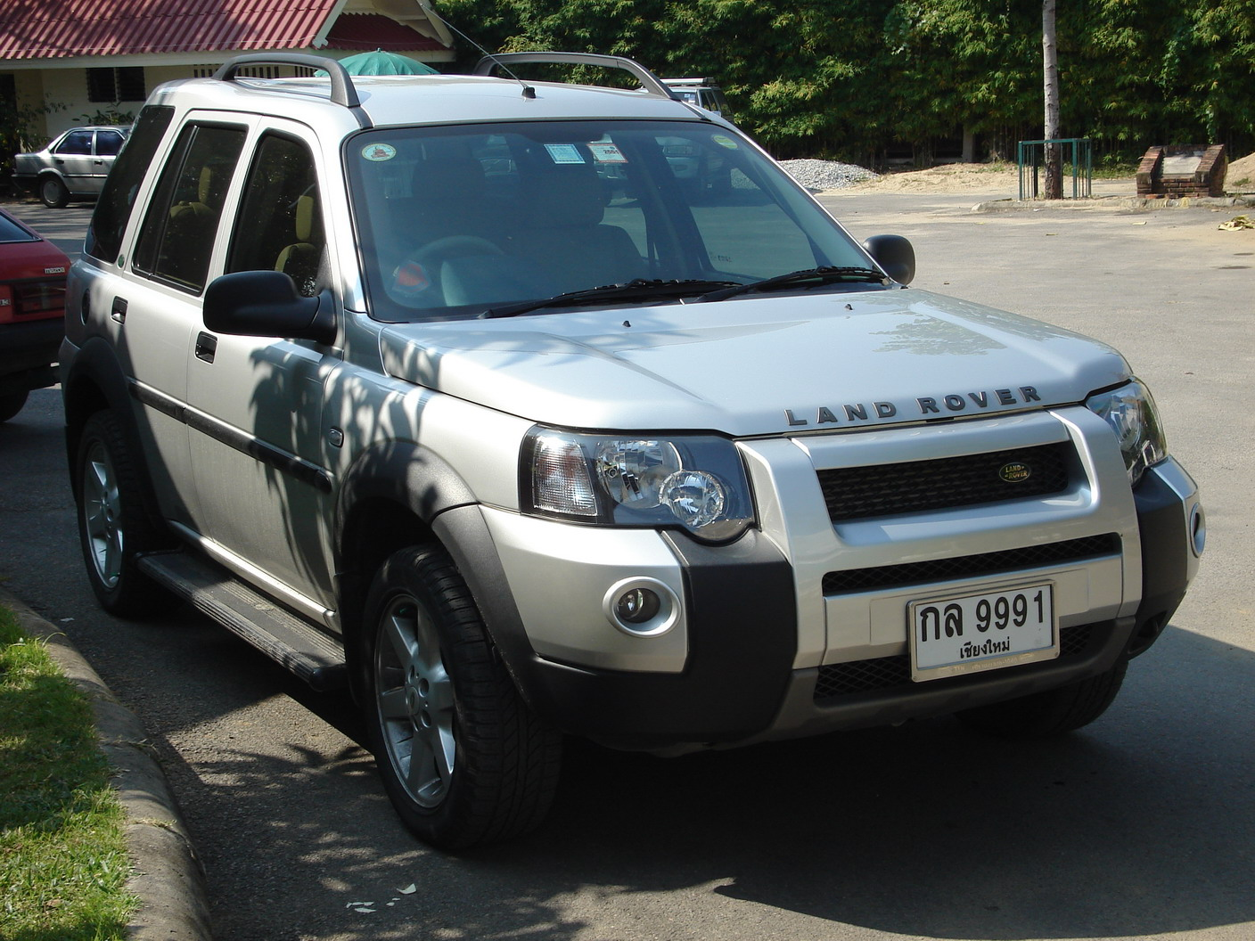 Land Rover Freelander -- Chiangmai, Thailand